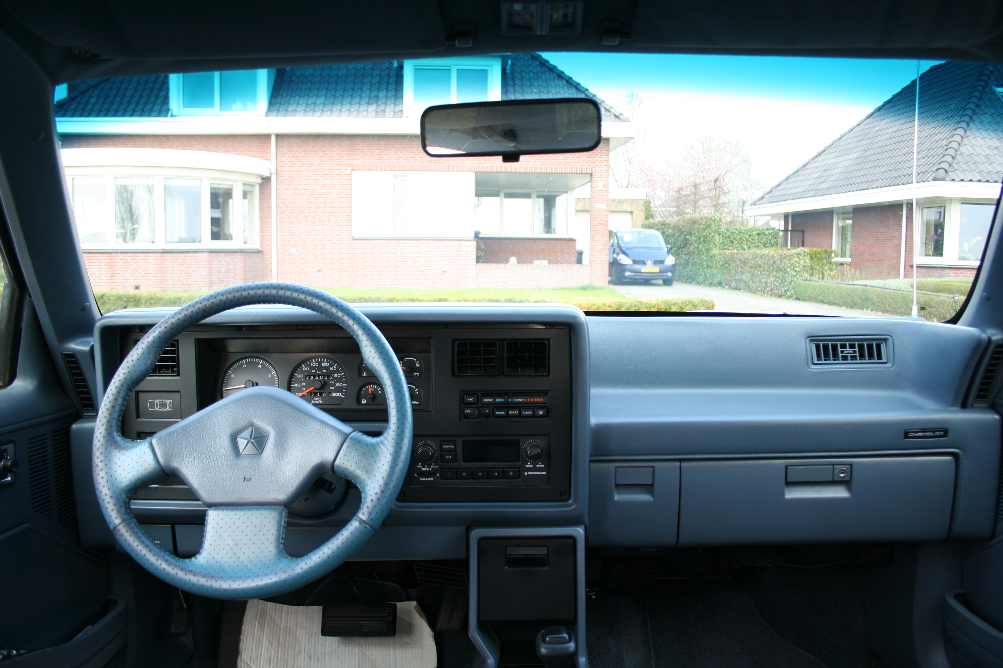 1988 Dodge Lancer LE interior